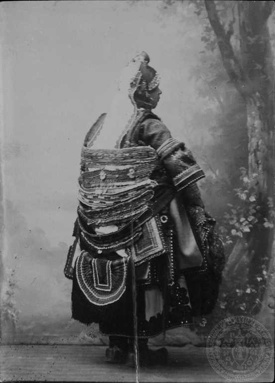 Woman from Novaci village, Bitola, Macedonia